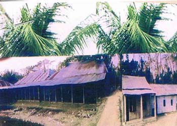 চরভৈরবী উচ্চ বিদ্যালয় টিনসেট ভবন